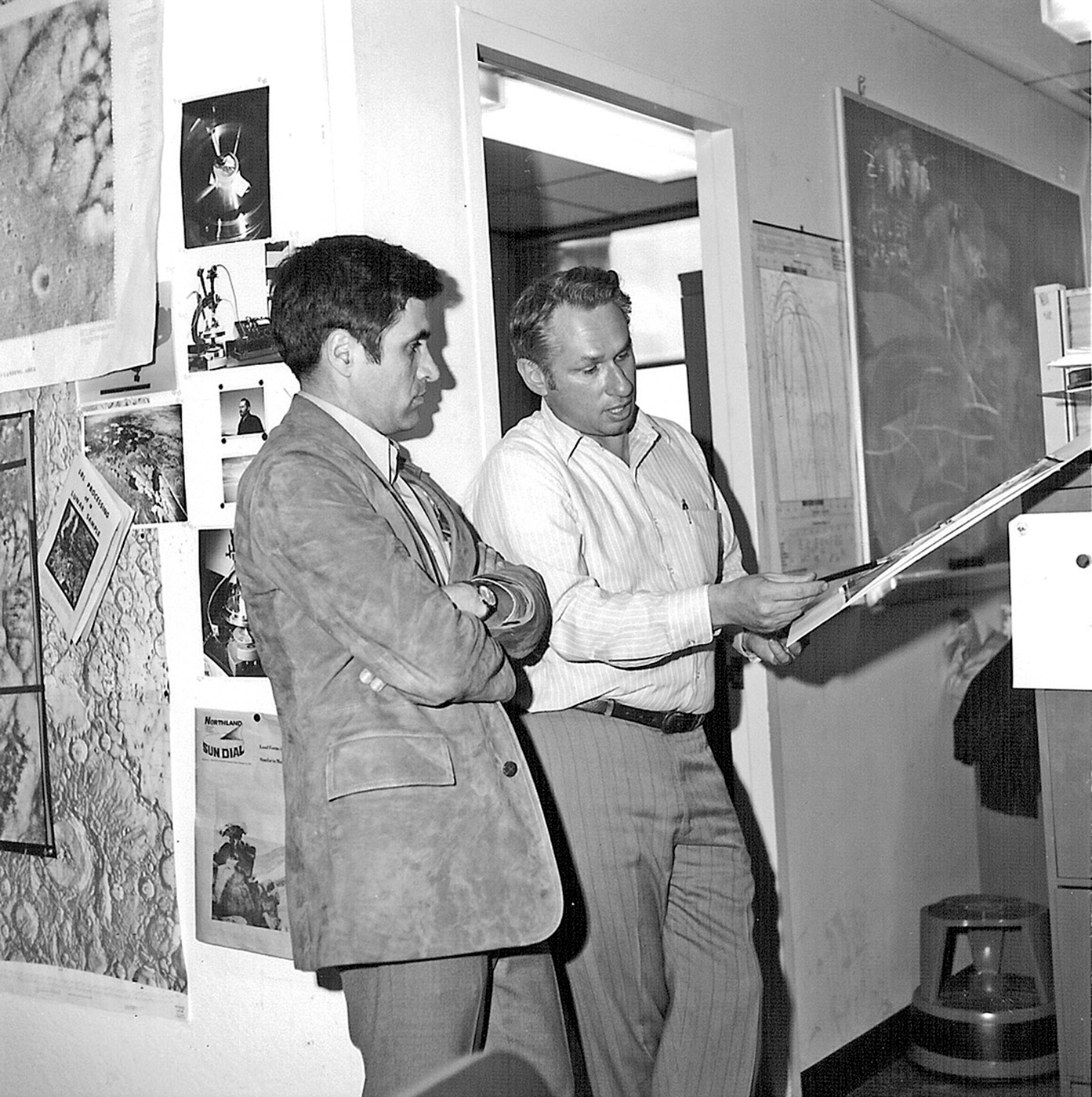 Left to right - Jack Schmitt and Henry Holt at the Arizona Bank Building. USGS Open-File Report 2005-1190, Figure 099c.